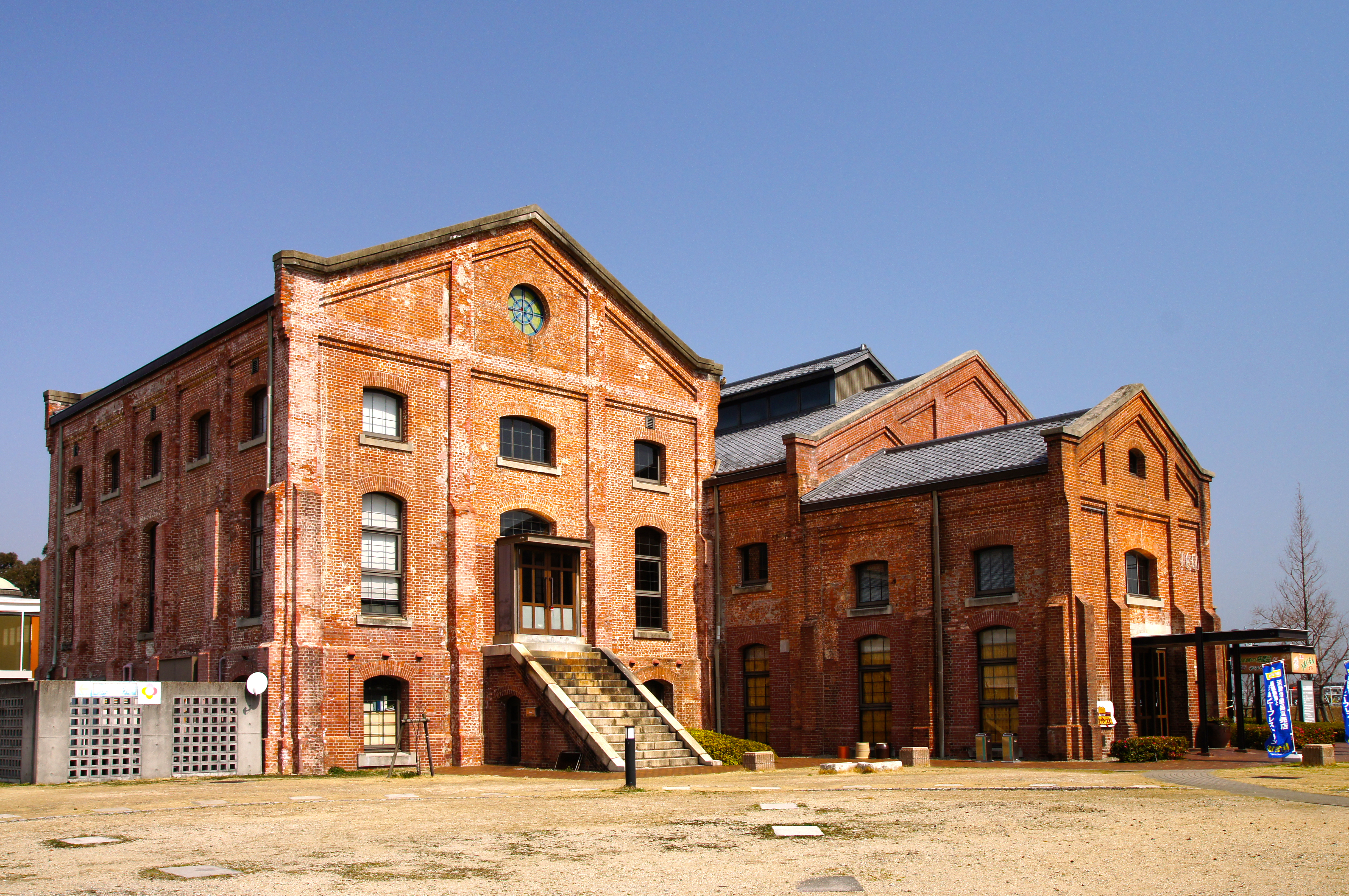 Awaji Gochiso-kan Mitsukekuni in Sumoto, Hyogo prefecture, Japan.